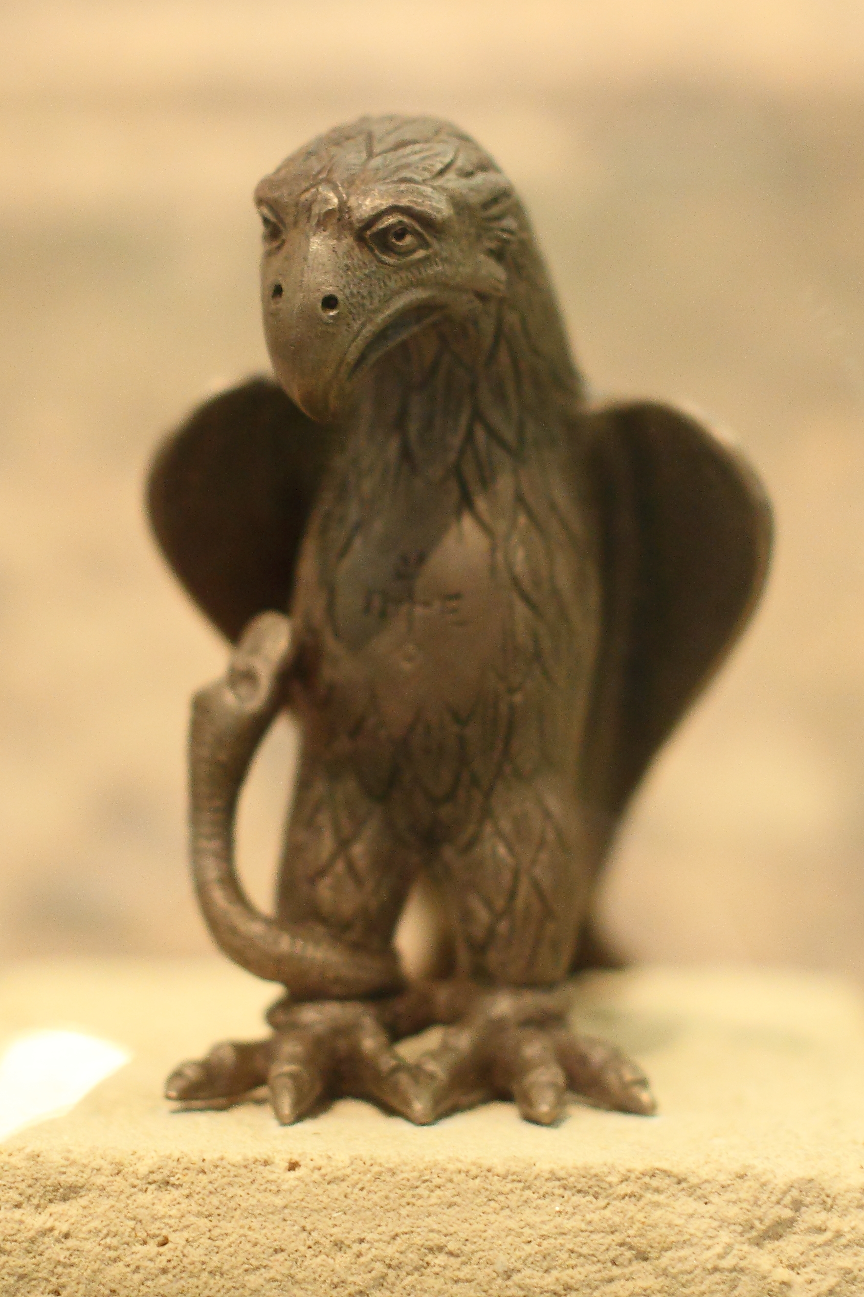 National Historical Museum of Bulgaria, in Sofia: 7th century - beginning of 8th century; silver eagle from the treasures near the village of Voznesenka, Ukraine; In 1930 the treasure was discovered accidentally on the Voznesenska height; near the left river-side of Dnieper, opposite the island of Hortitsa, it consists of gold, silver and iron objects. There are belt plates, armaments, equipment and remains from body cremations. It has been assumed that the eagel was on the point of a Byzantine banner emblem which had been taken captive by teh Bulgarians. during the World War II most of the finds were lost. The rest of the objects are preserved in teh museums of Kharkiv, Dnepropetrovsk, Zaporizhzhya and Odesa. The original is treasured in the Zaporizhzhya Regional Historical Museum in the city of Zaporizhzhya , Ukraine